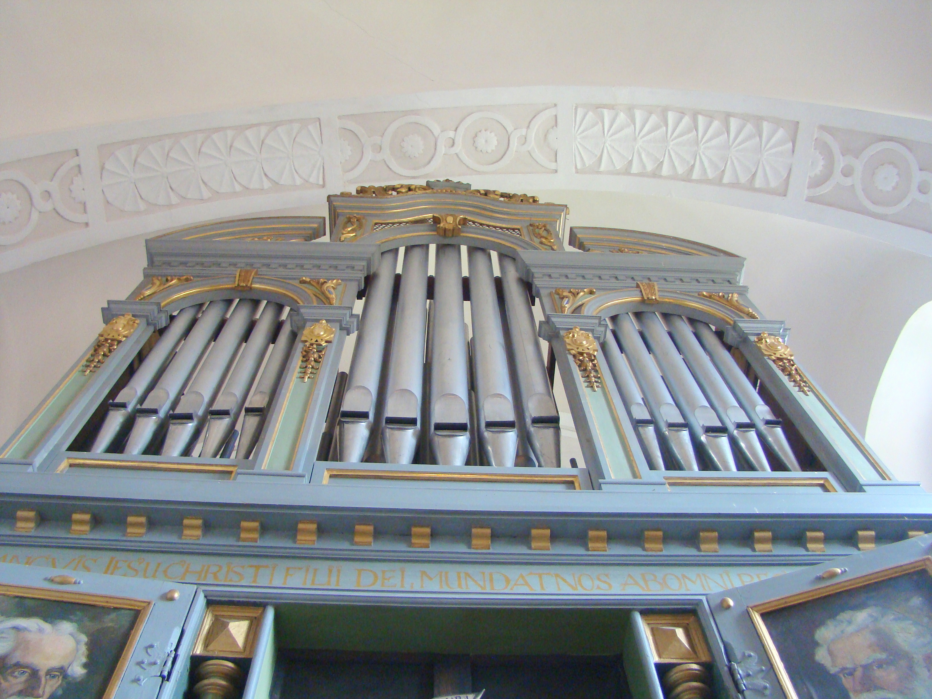 Fortified church in Meșendorf, Brașov County, Romania